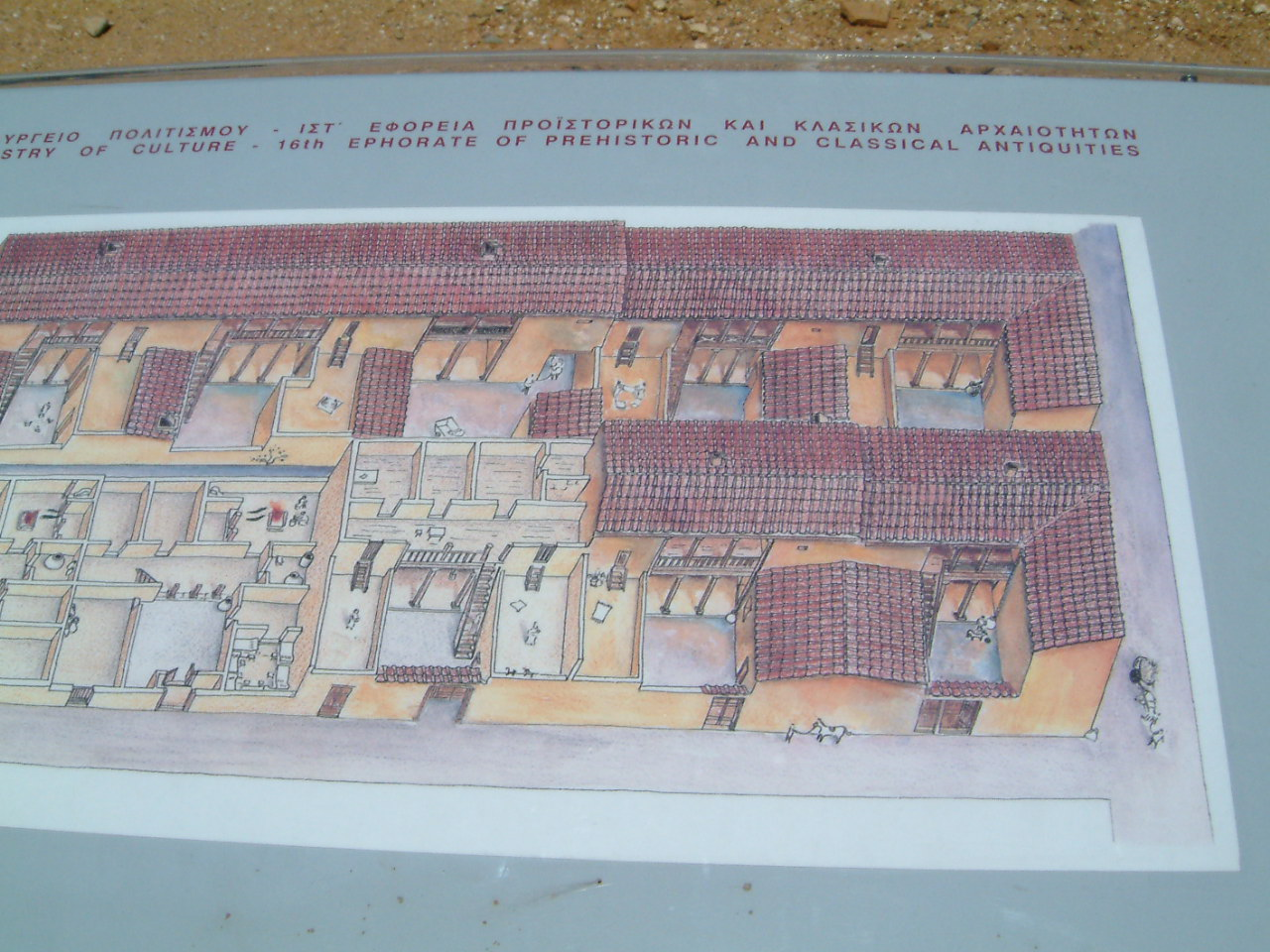 Schematic drawing of a single housing block in the ancient city of Olynthos, Chalkidiki, Greece (northern hill of ancient town).